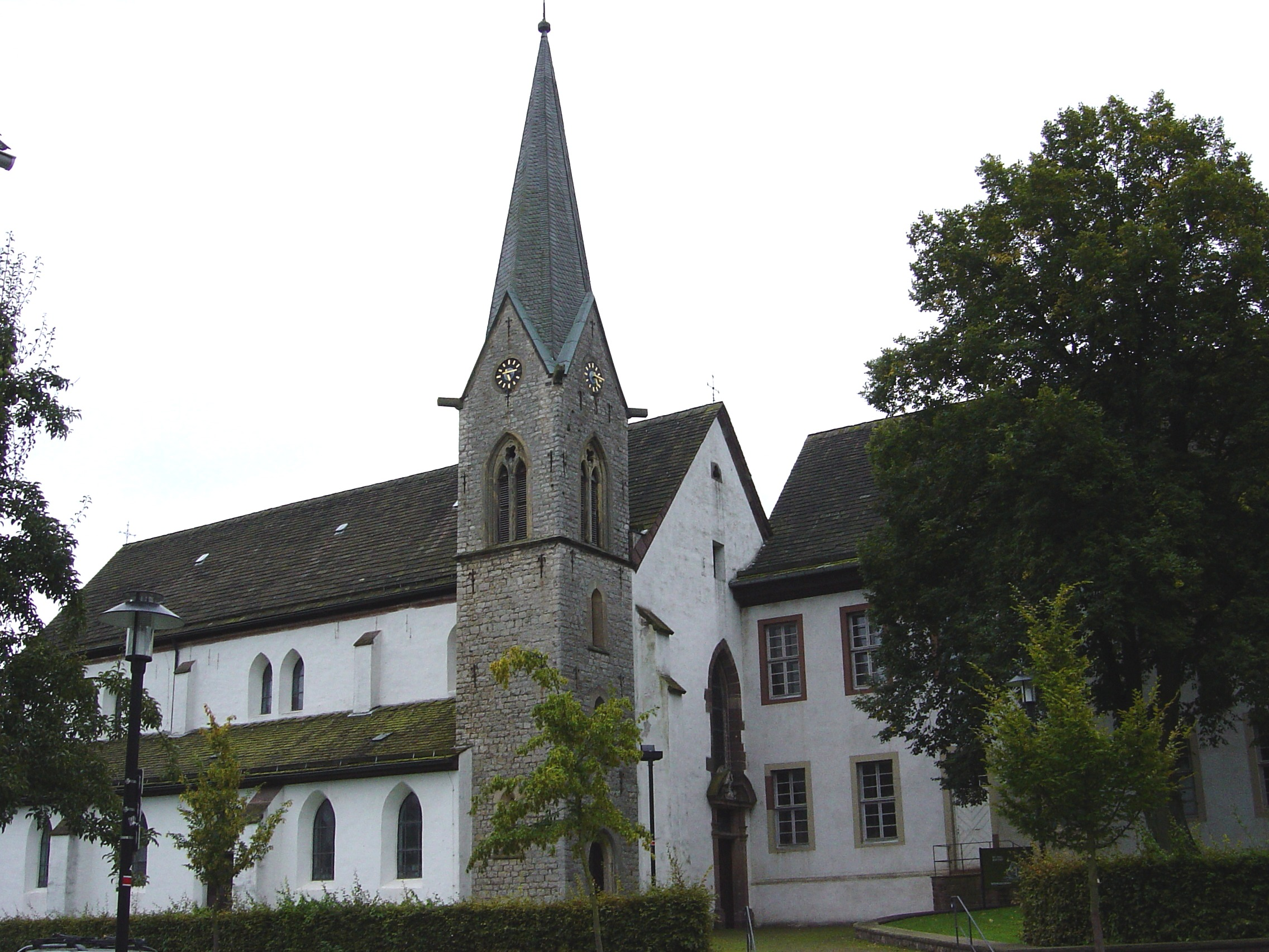 Catholic Church St. Johannes Baptist Brenkhausen, Höxter (Germany)